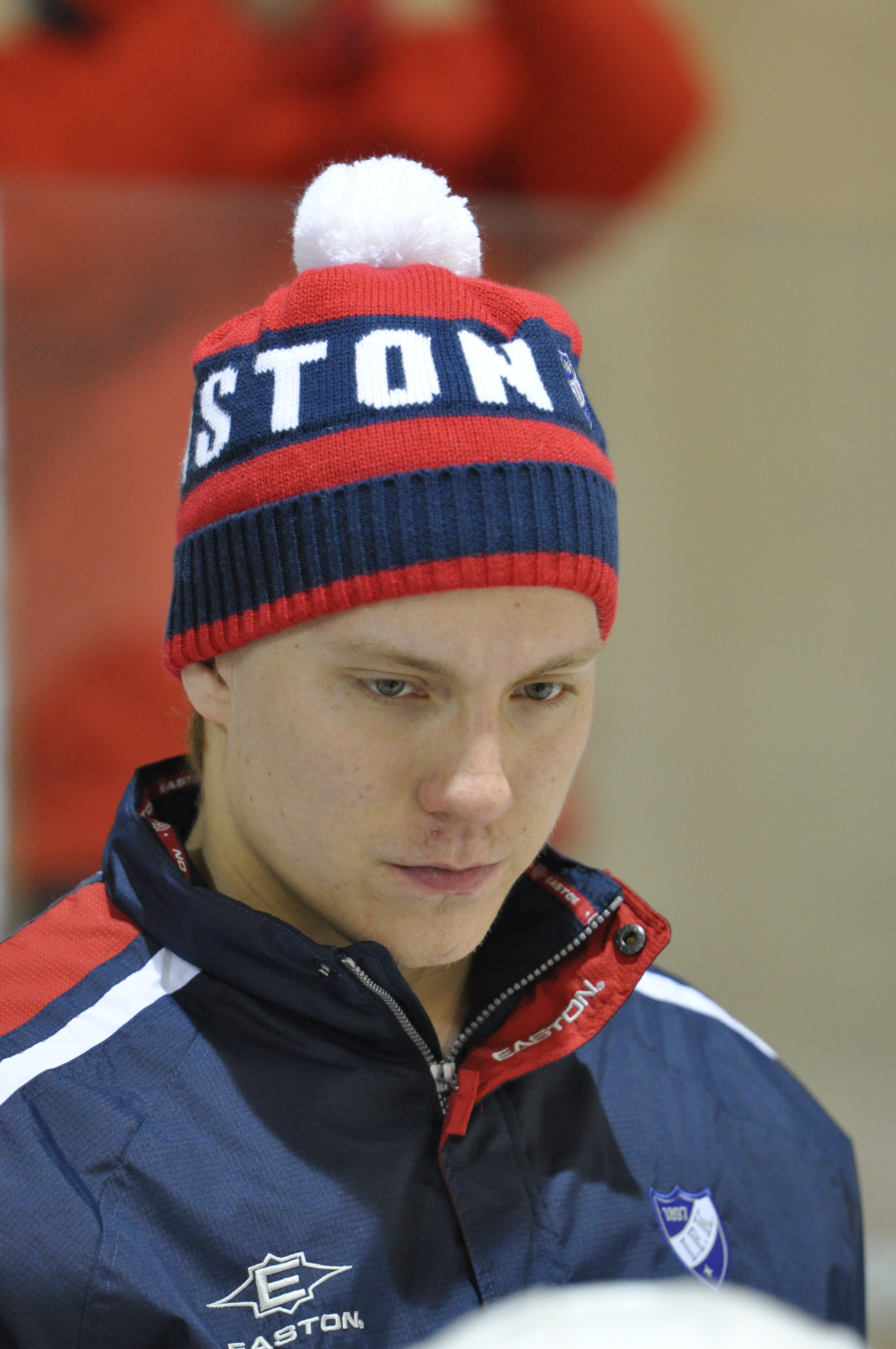 Markus Granlund